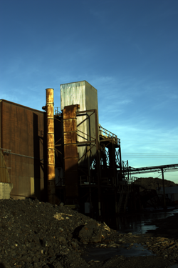 Author - Alistair Siddons Source - My original photograph from the Chemetco site, January 2005 User:Astral highwayAstral highway (User talk:Astral highwaytalk) 21:02, 3 January 2009 (UTC) I am trying to get this linked and uploaded to the Chemetco page Can anyone help please? User:Astral highwayAstral highway (User talk:Astral highwaytalk) 21:23, 3 January 2009 (UTC) Contents 1 Summary 2 Licensing 3 Licensing 4 Original upload log Summary Author - Alistair Siddons Source - My original photograph from the Chemetco site, January 2005 Astral highway (talk) 21:02, 3 January 2009 (UTC) Licensing I am trying to get this linked and uploaded to the Chemetco page Can anyone help please? Astral highway (talk) 21:23, 3 January 2009 (UTC)